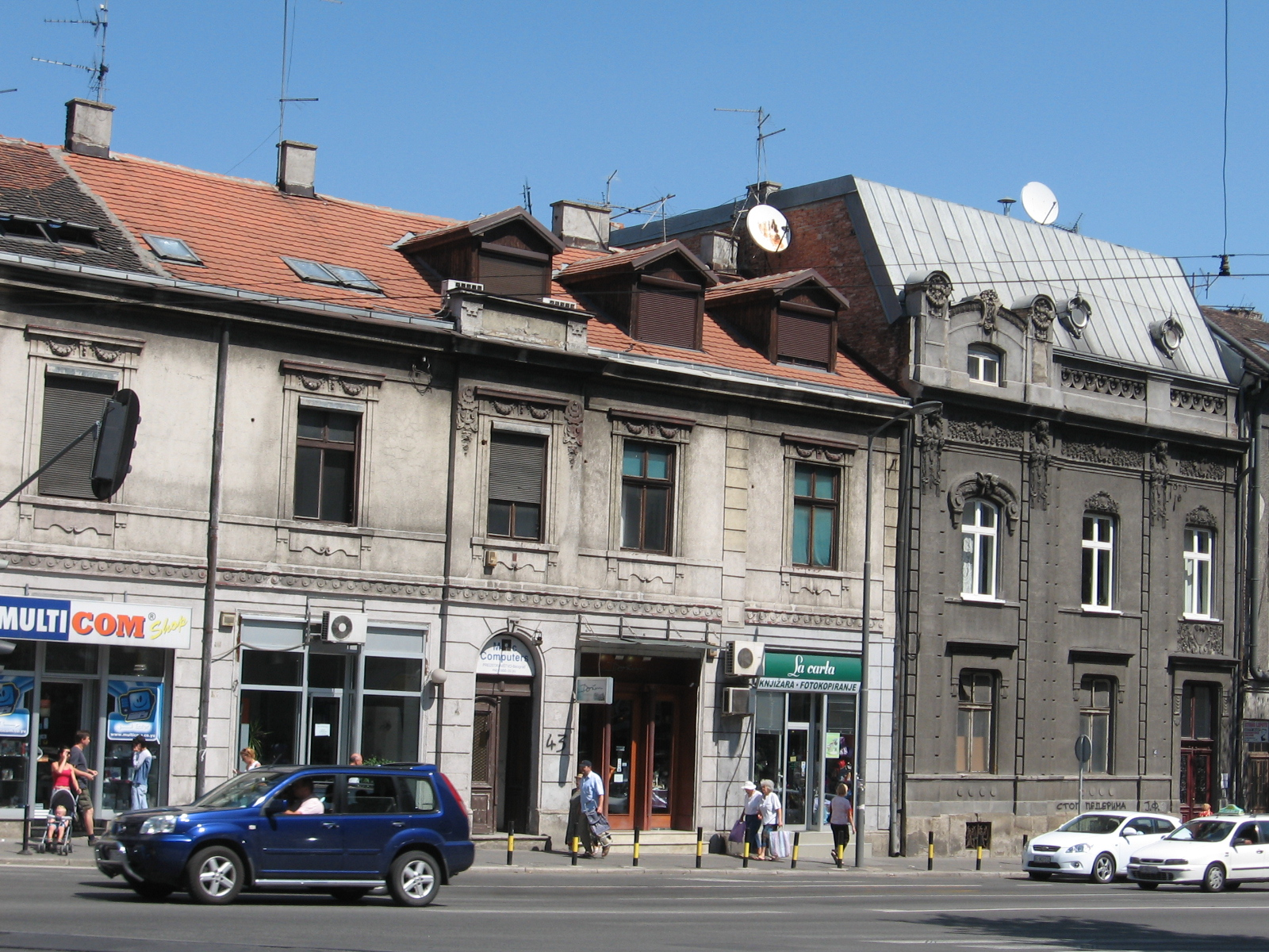 Street in Dorćol, Belgrade